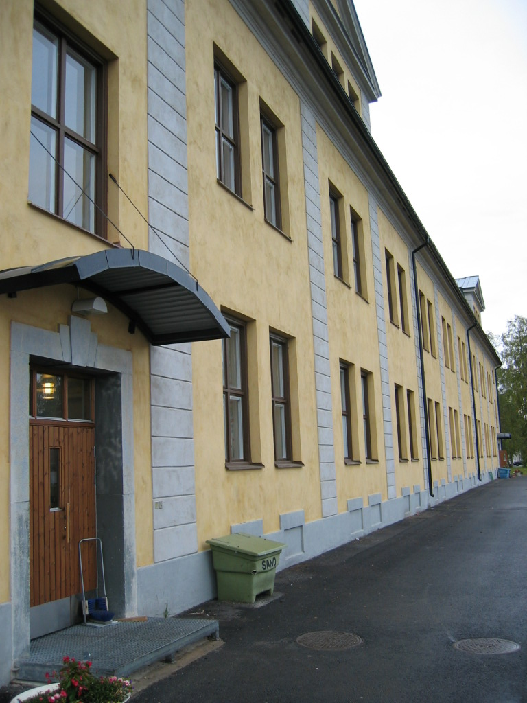 Barracks of Norrbottens regemente located in Boden, Sweden.